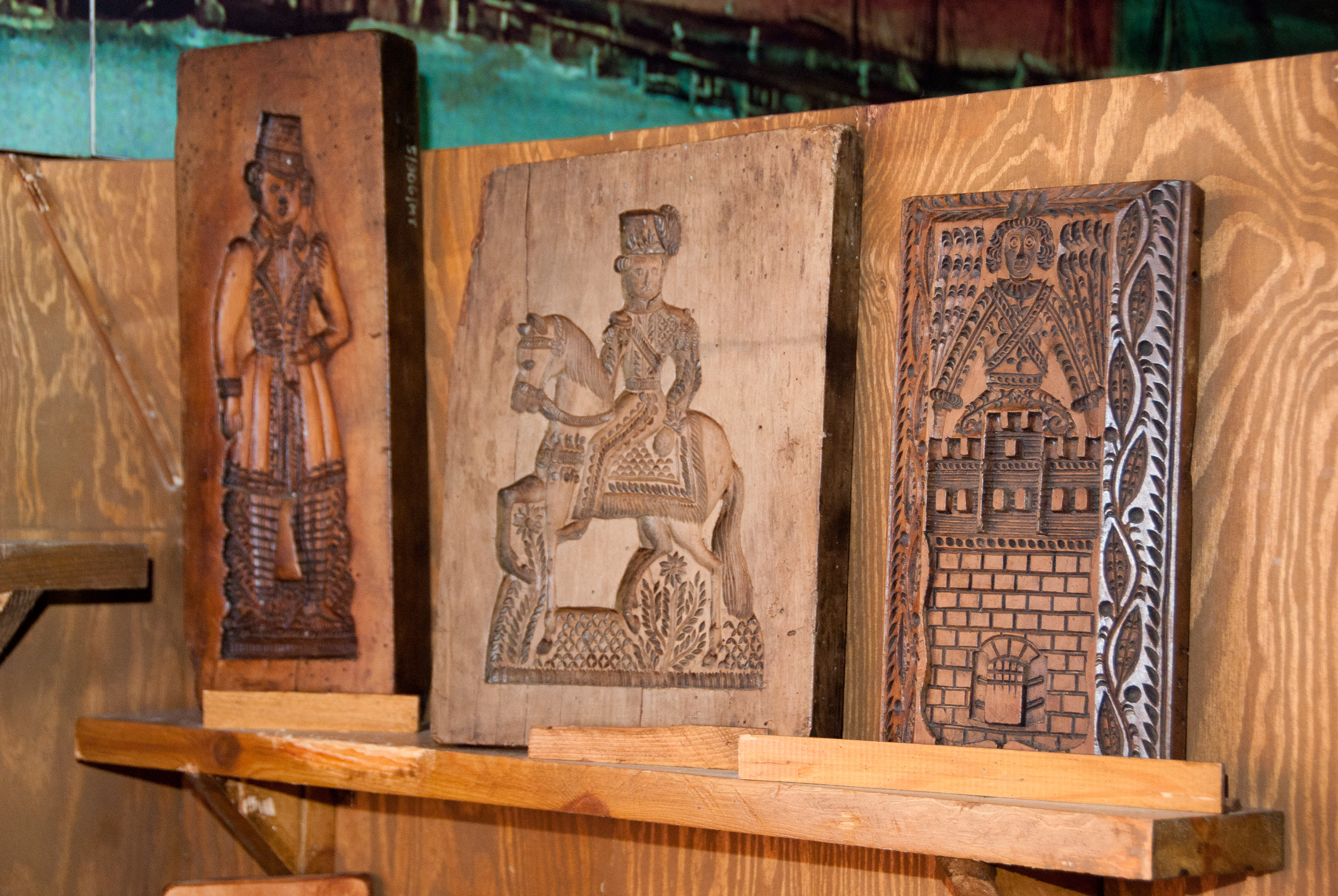 Traditional gingerbread mold from Torun, Poland